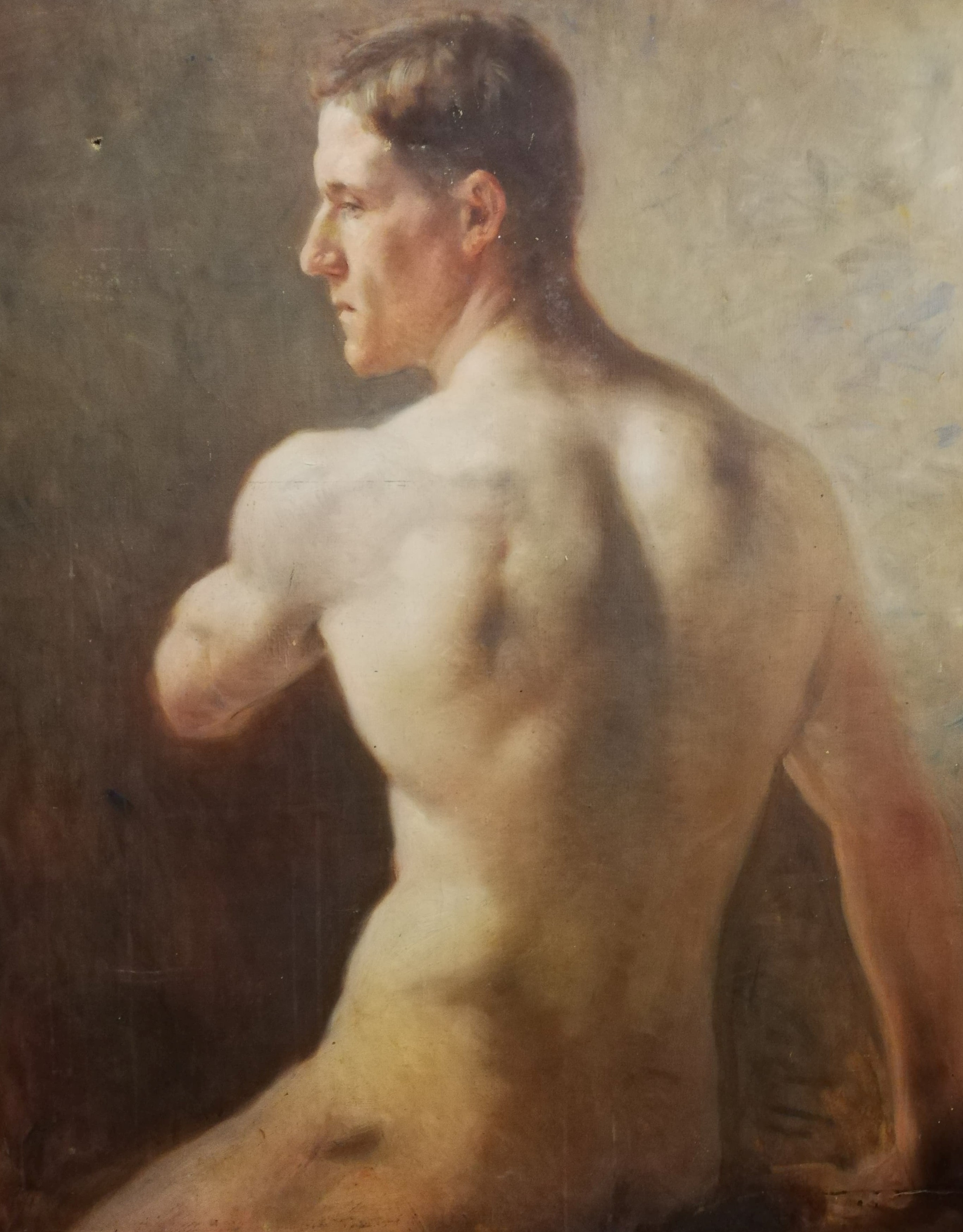 tableau Raoul Servant